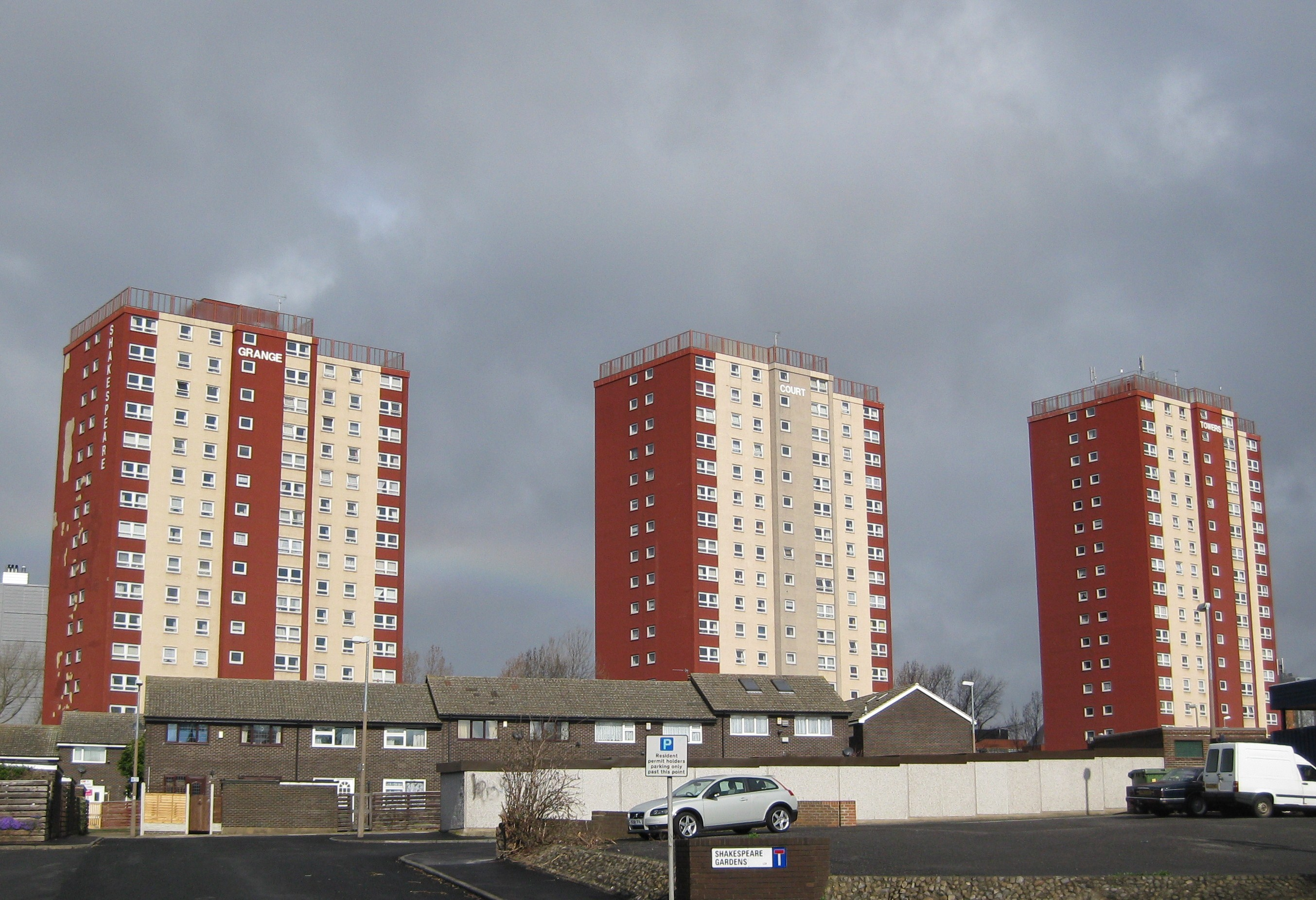 Shakespeare group of flats, Burmantofts, Leeds LS9